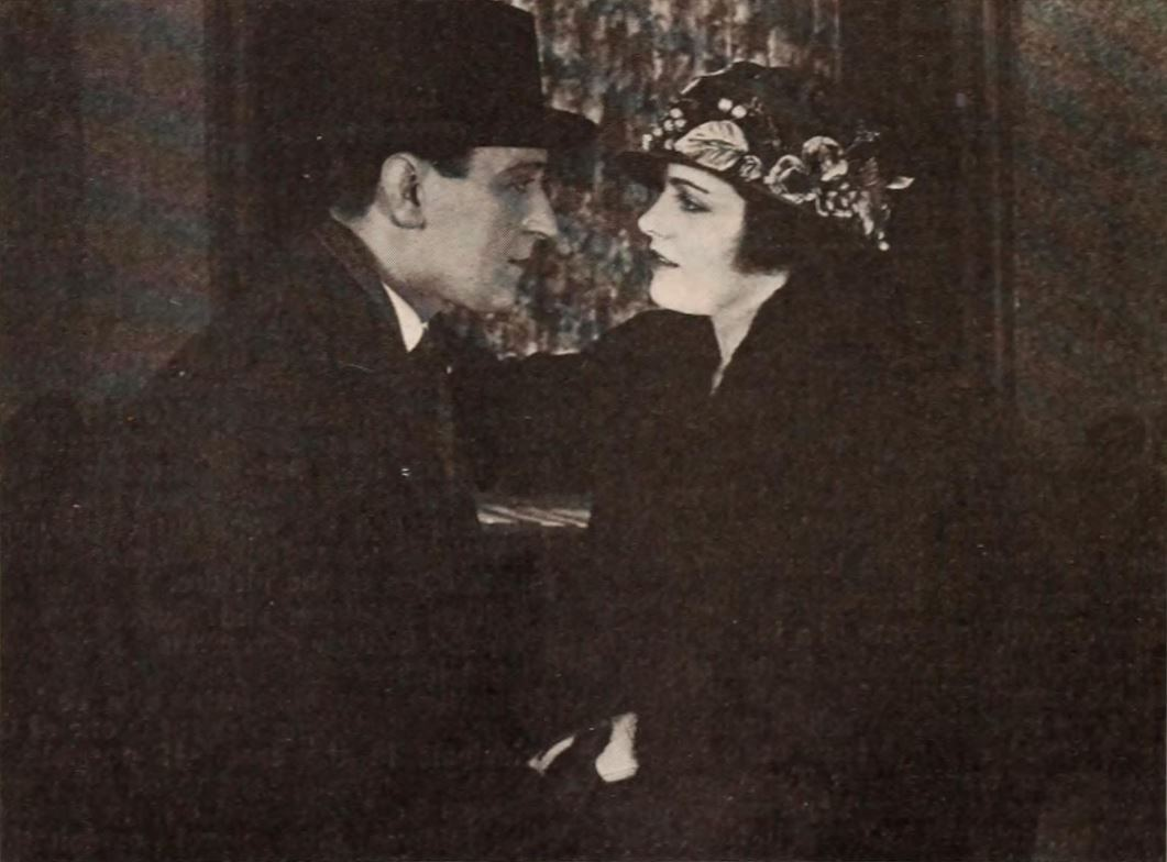 Still from the American film The Shadow of Rosalie Byrnes (1920) with Edward Langford and Elaine Hammerstein, on page 83 of the May 8, 1920 Exhibitors Herald.